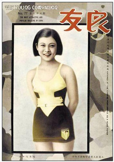 Liangyou No. 77 cover: swimmer Yang Xiuqiong